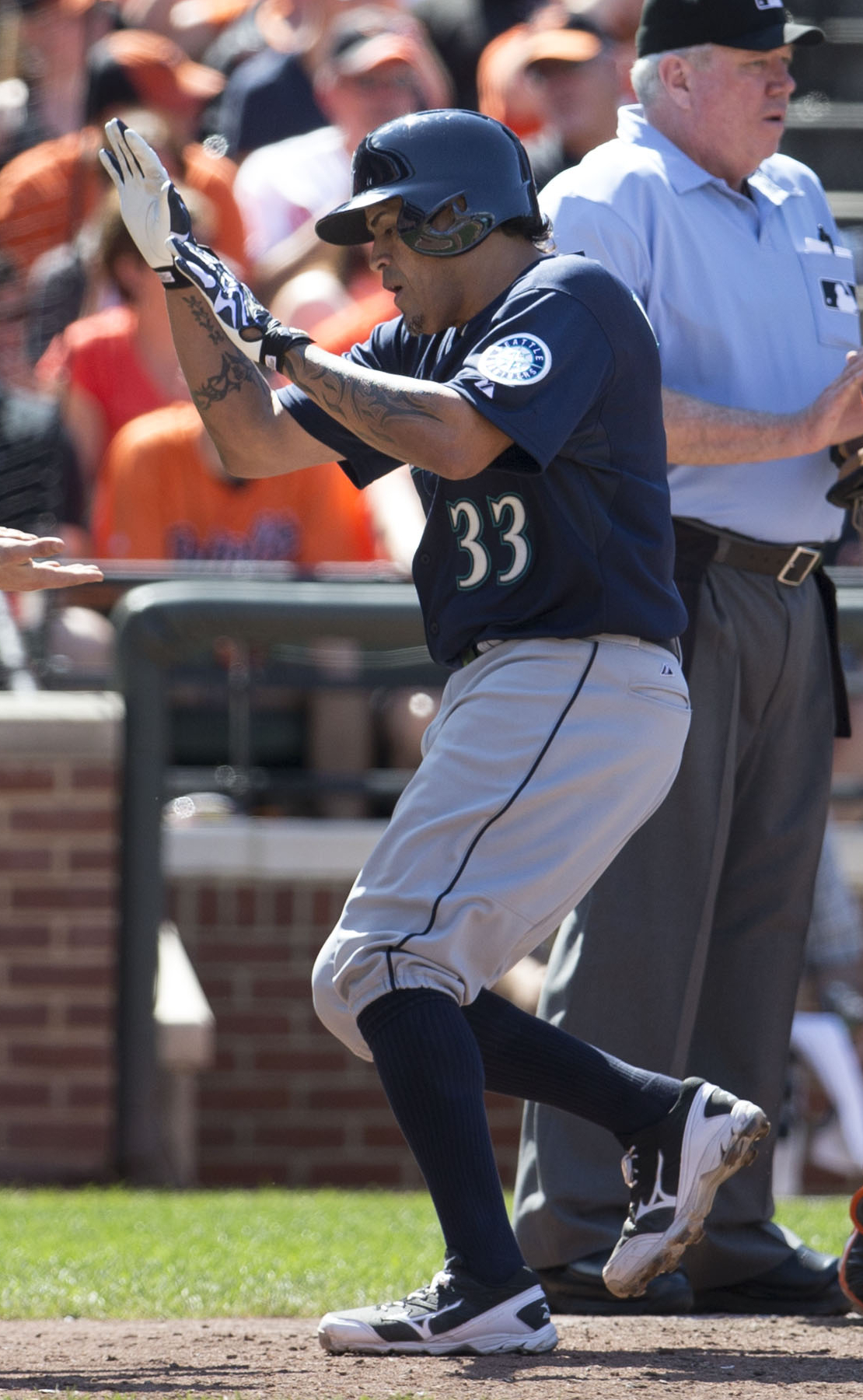 Henry Blanco